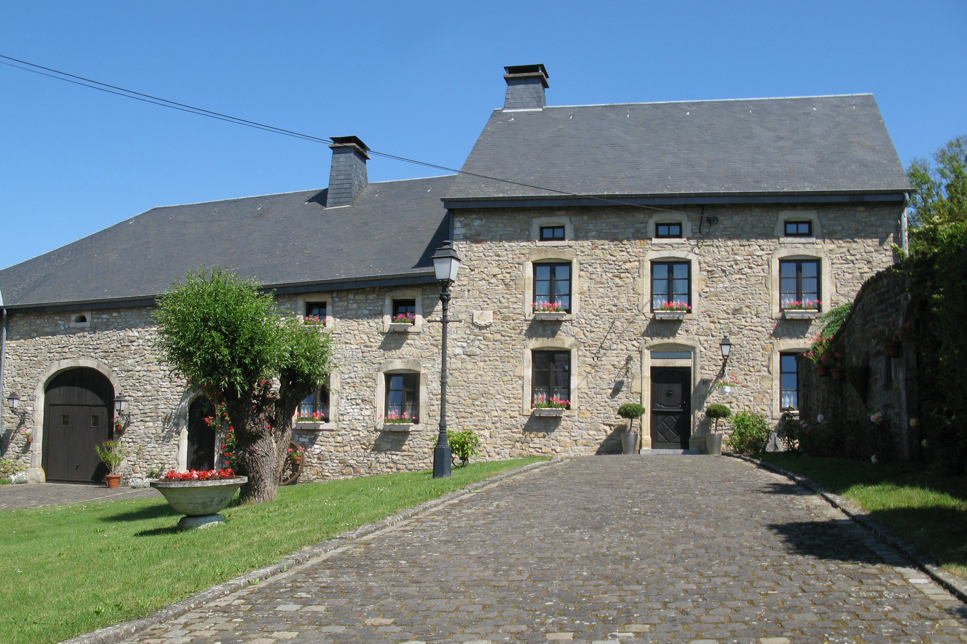 Farmhouse of 1790 in Barnich, Belgium.